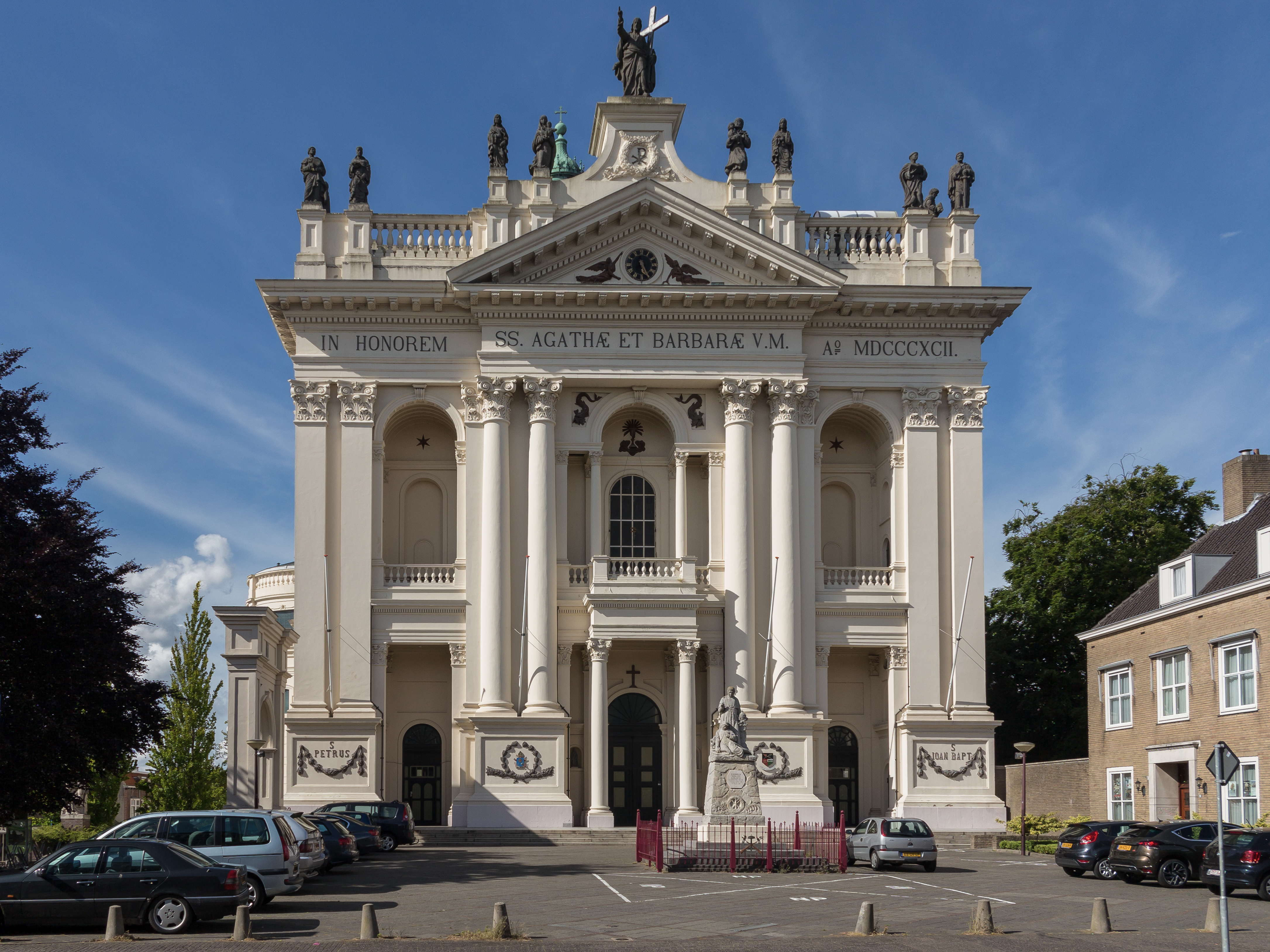 Oudenbosch, basilica: de Basiliek van de Heiligen Agatha en Barbara